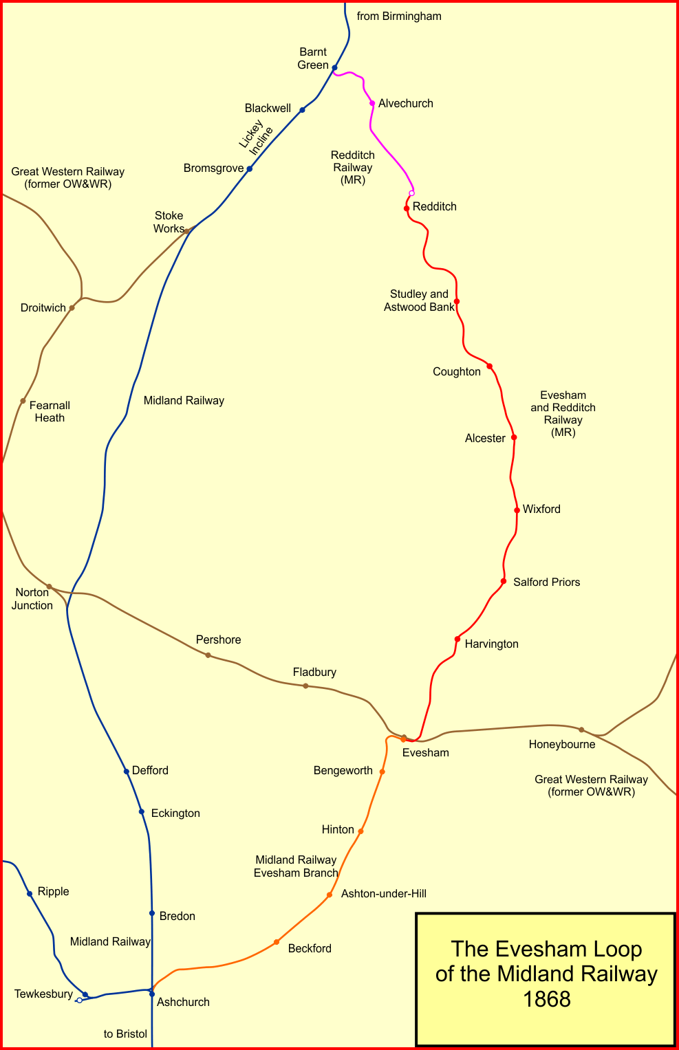 System map of the railways that formed the Evesham Loop of the Midland Railway in England in 1868